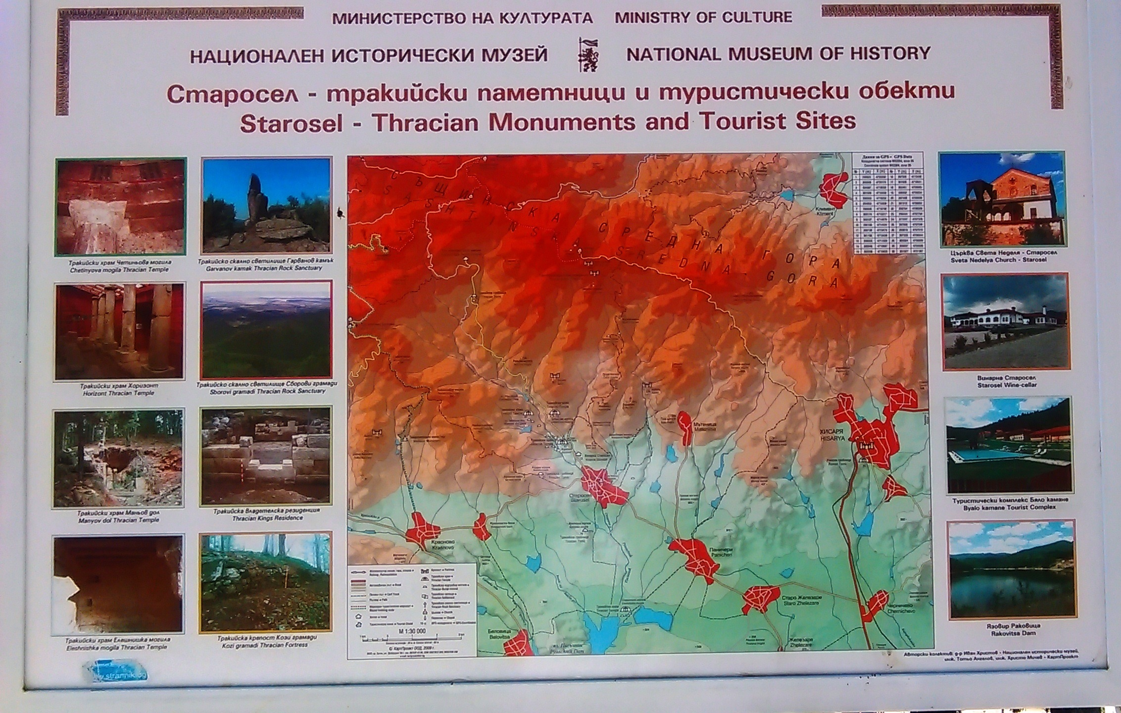 Plan of thracian heritage near Starosel, Plovdiv province, Bulgaria